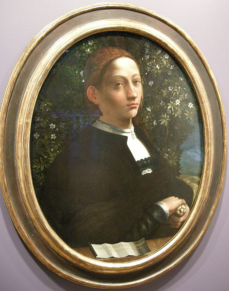 Lucrezia Borgia, Duchess of Ferrara (ca. 1518).